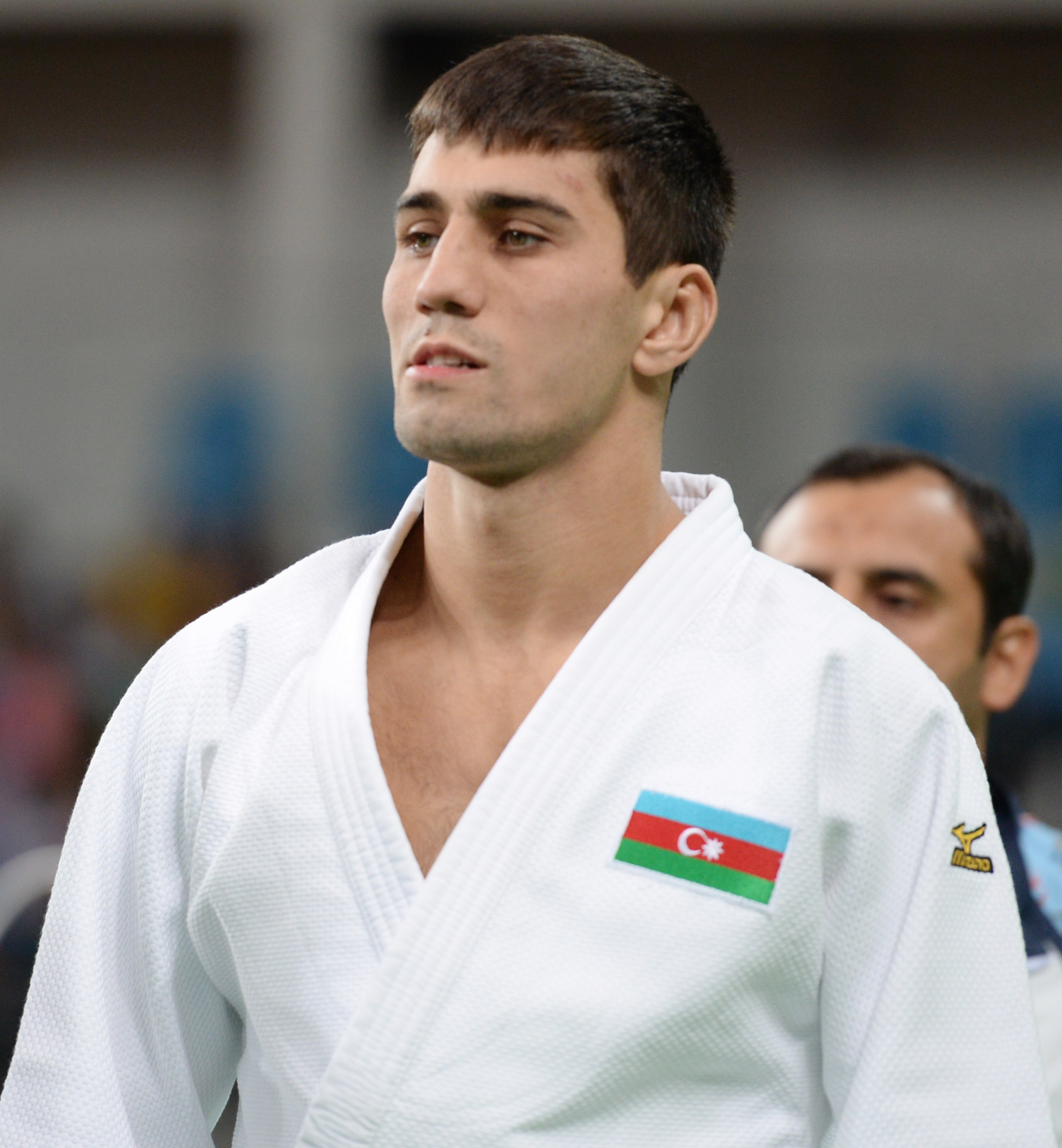 Judo at the 2016 Summer Olympics, Orujov vs Khamza